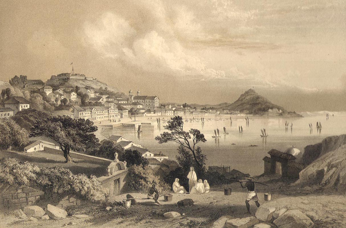 Macao From Penha Hill.